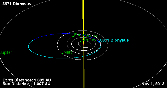 This diagram illustrates the orbit of the asteroid 3671 Dionysus.